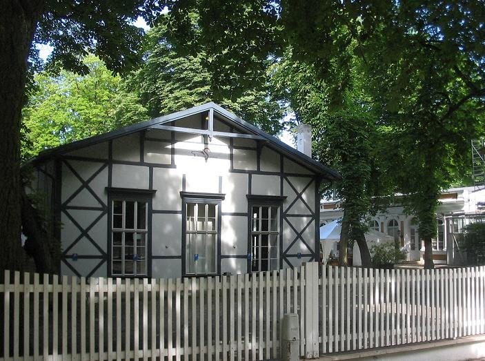 Schildhorn, historic restaurant „Wirtshaus Schildhorn“ with listed halls from 1881 (left) and 1894. Schildhorn (german for: shieldhorn) is a headland in the river Havel, situated in the protected area Grunewald in the homonymous quarter Grunewald of Berlins borough Charlottenburg-Wilmersdorf, Germany.